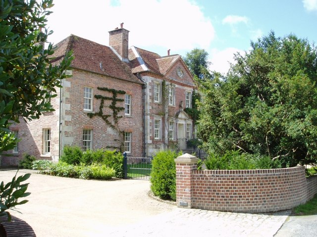 Reddish House at Broad Chalke. I wonder what the former owner of this house, the late Sir Cecil Beaton, would make of this photograph.